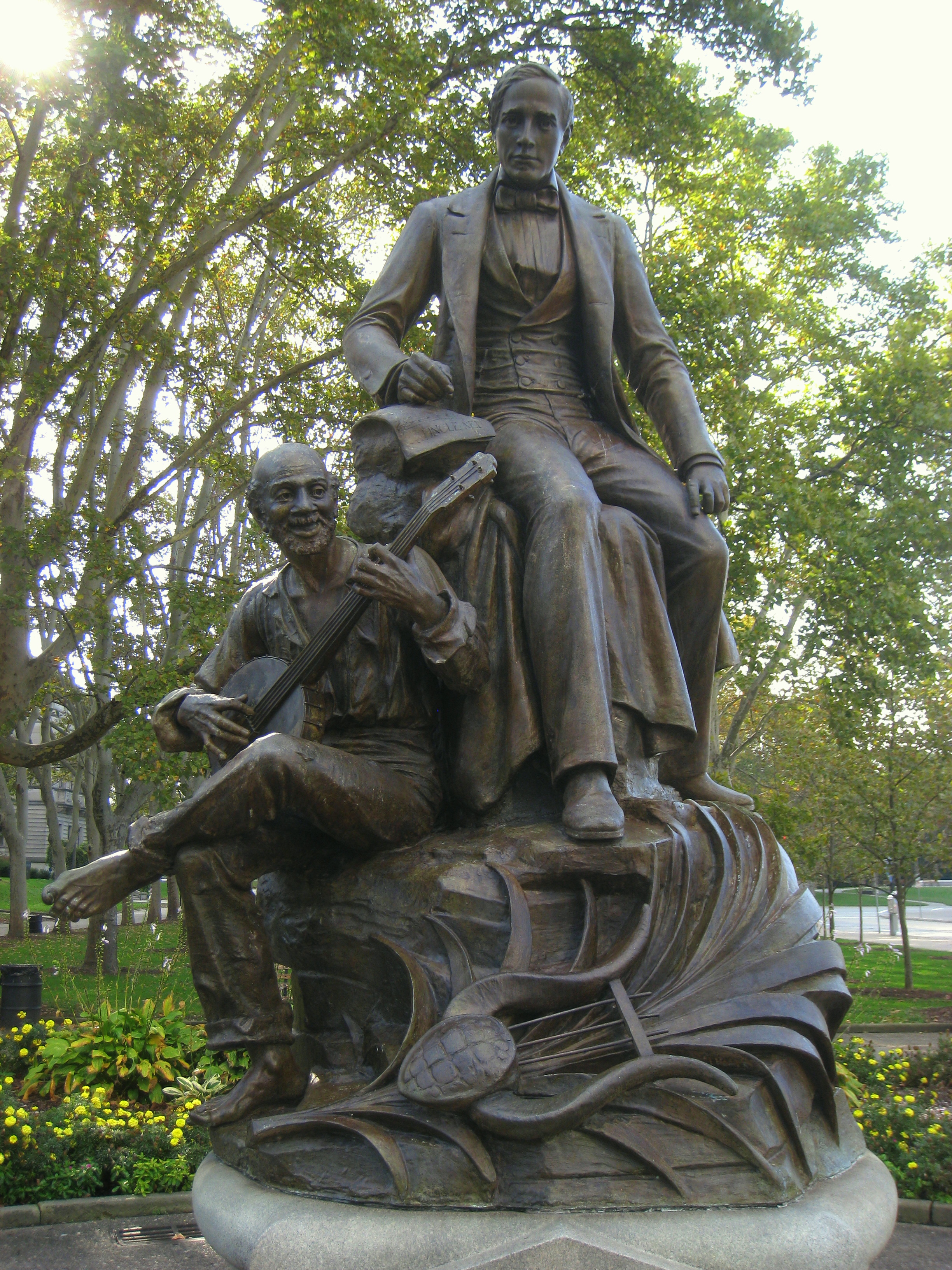 Stephen Foster Monument, Pittsburgh, Pennsylvania, USA. Sculptor: Giuseppe Moretti (1857—1935).